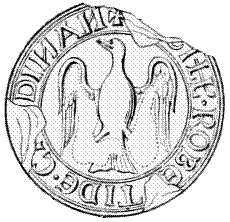 Seal of Robert "son of Robert FitzWilliam", feudal baron of Cardinham, Cornwall, tempore King Richard I (1189-1199). This drawing of his seal, appendant to an undated (during reign of King Richard I (Lysons stated in error Richard II)) grant of his mill of Cardinam to the Priory of Tywardreth, Cornwall, was published in Lysons, Magna Britannia, Volume 3: Cornwall, 1814, Extinct peers and baronial families. It shows an eagle displayed circumscribed by the words: SIGILL(UM) ROBERTI DE CARDINAN ("seal of Robert de Cardinan") .